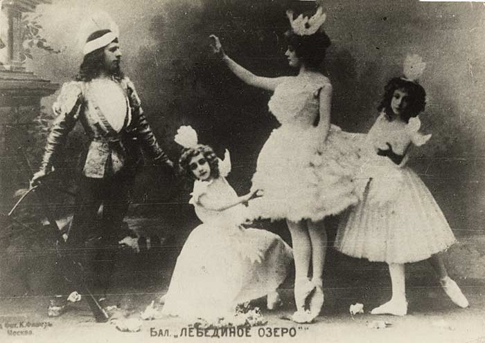 Adelaide Giuri as Odette and Mikhail Mordkin as Prince Siegfried with two unidentified children as Little Swans in Alexander Gorsky's staging of the Petipa/Ivanov Swan Lake for the Bolshoi Theatre, Moscow, 1901